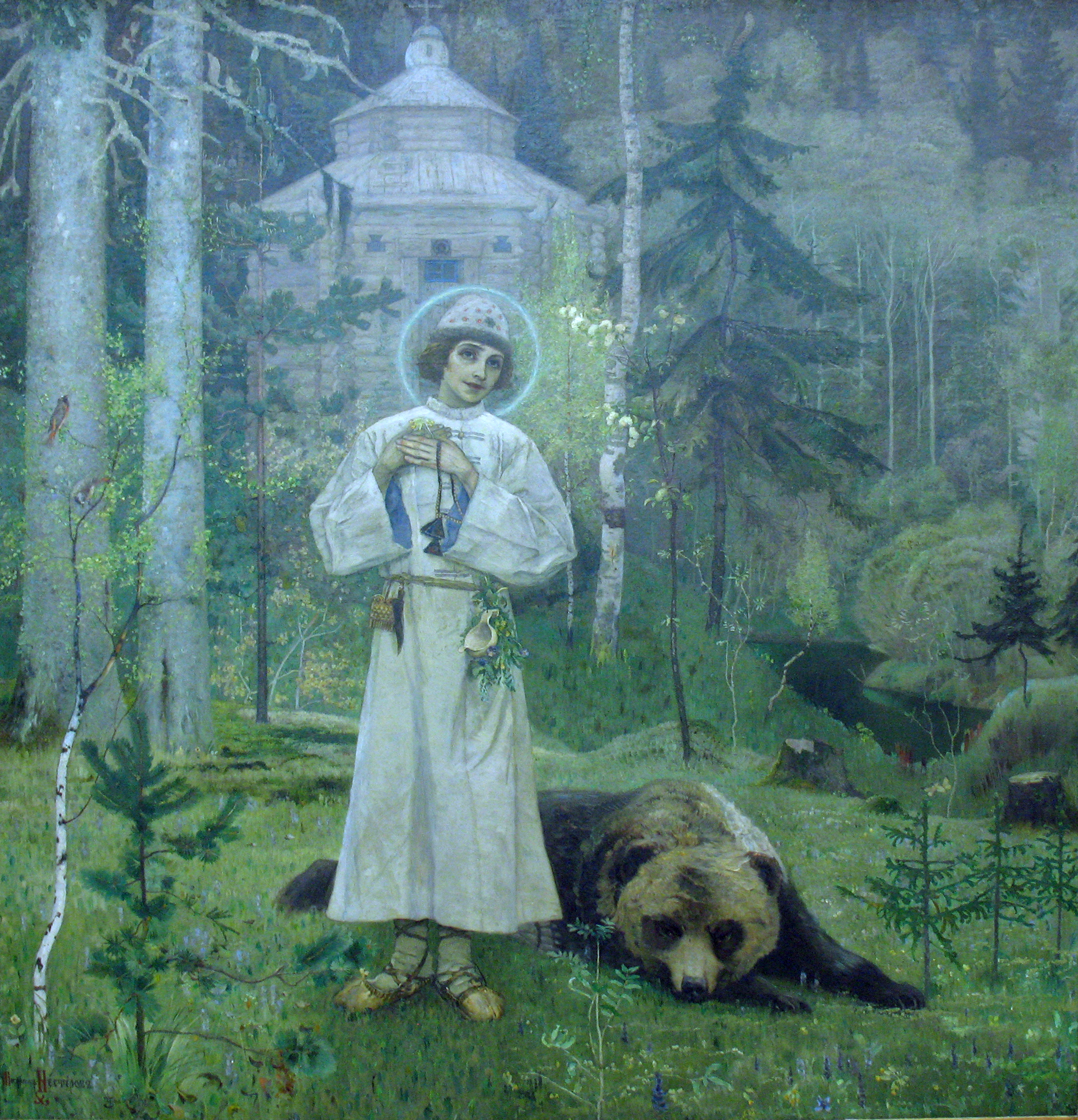 Youth of Reverend Father Saint Sergius, 1892-1897